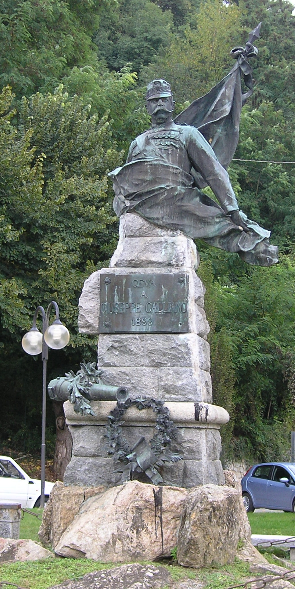 Monument to Giuseppe Galliano, Ceva (Italy)